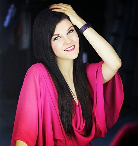 Saara Aalto, a Finnish singer-songwriter.